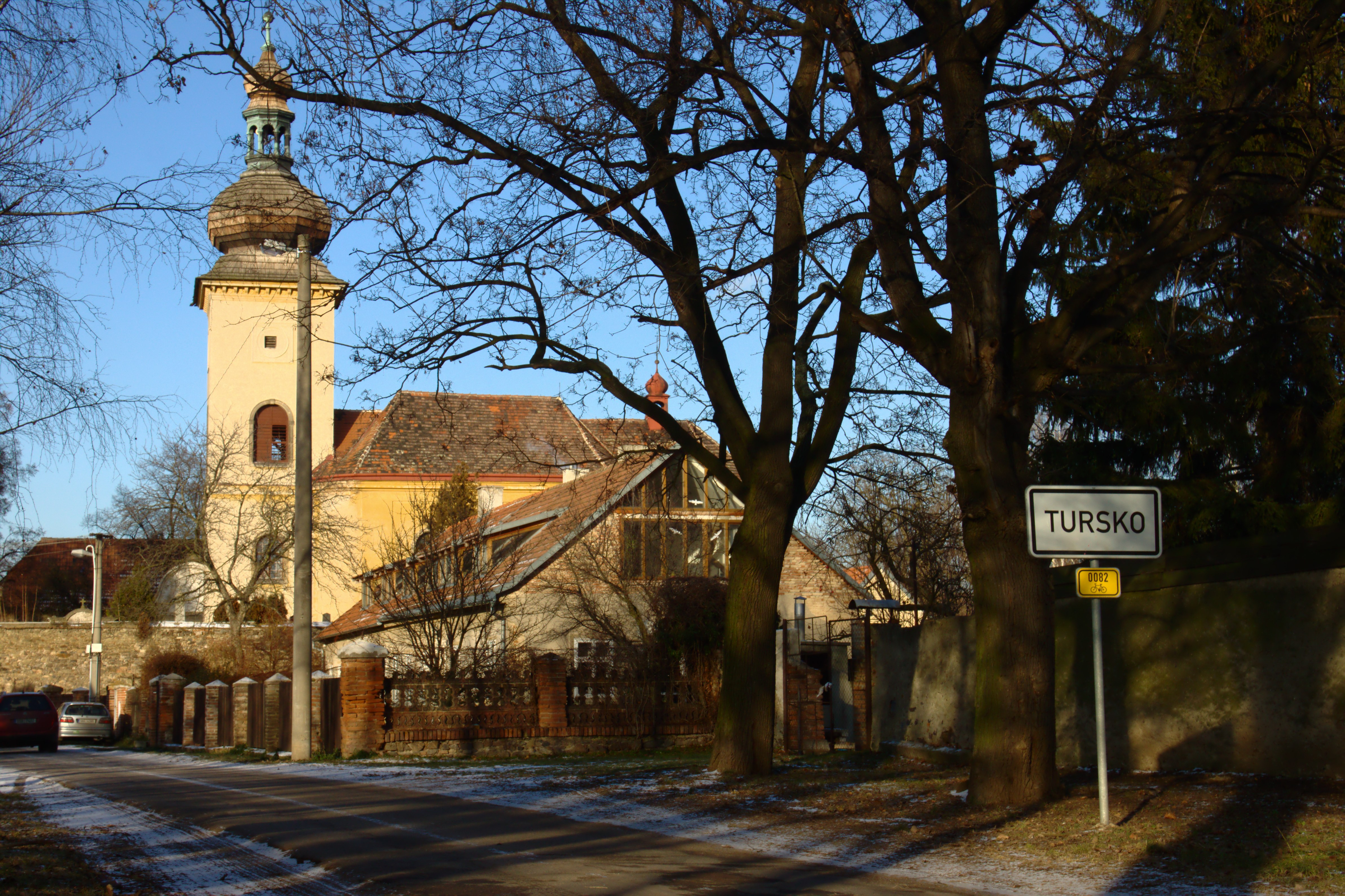 The town of Tursko, southern edge. The church of st. Martin can be seen. Central Bohemian Region, CZ